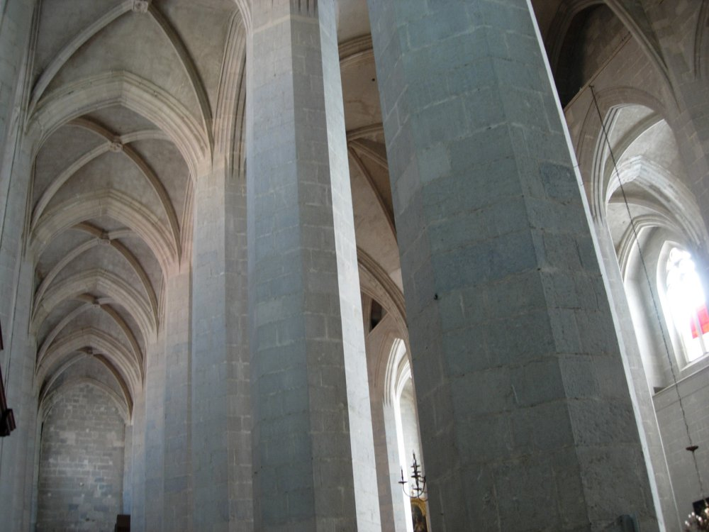 Cathedral of Saint-Claude, Jura, France. Nave.